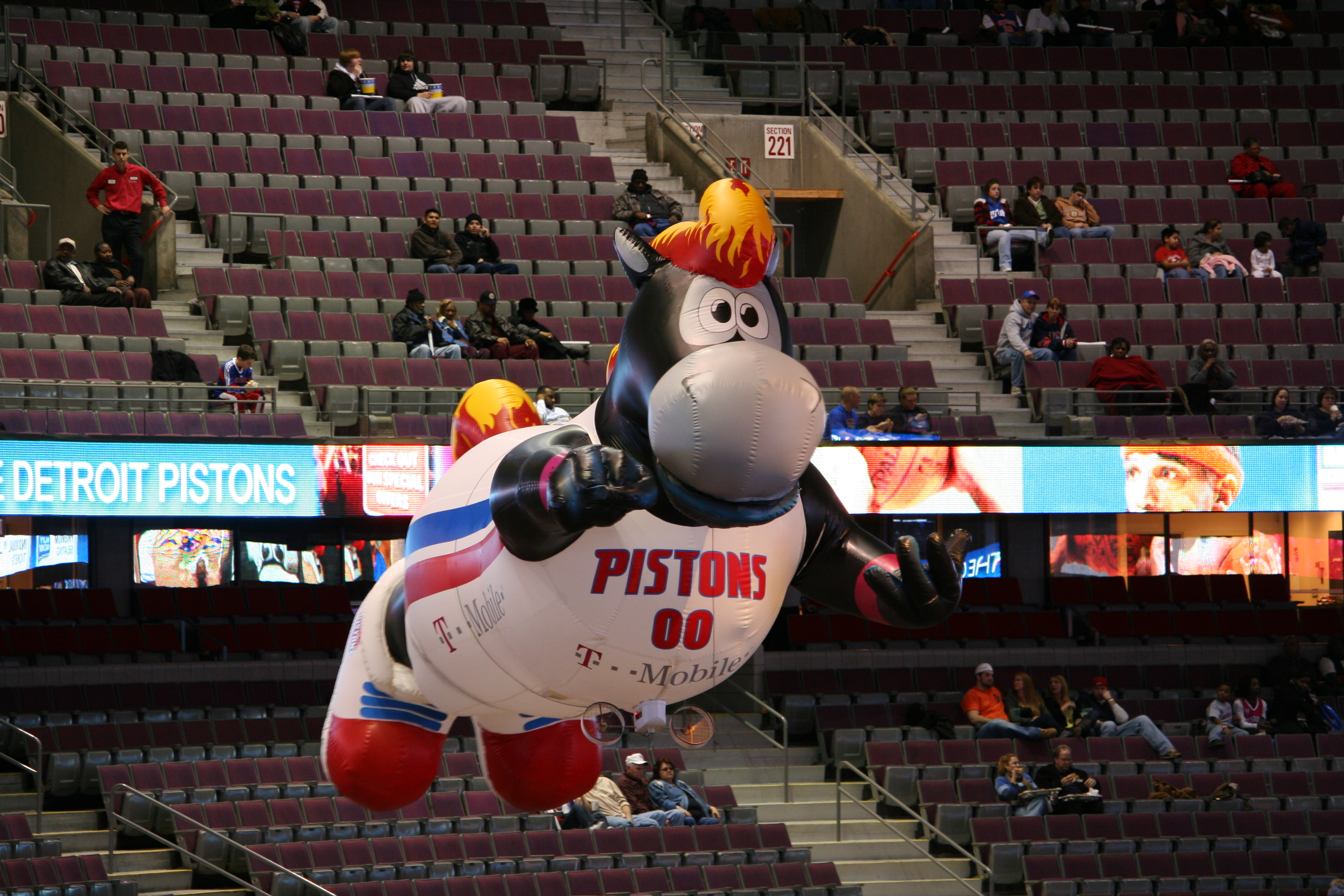 Inflatable Hooper